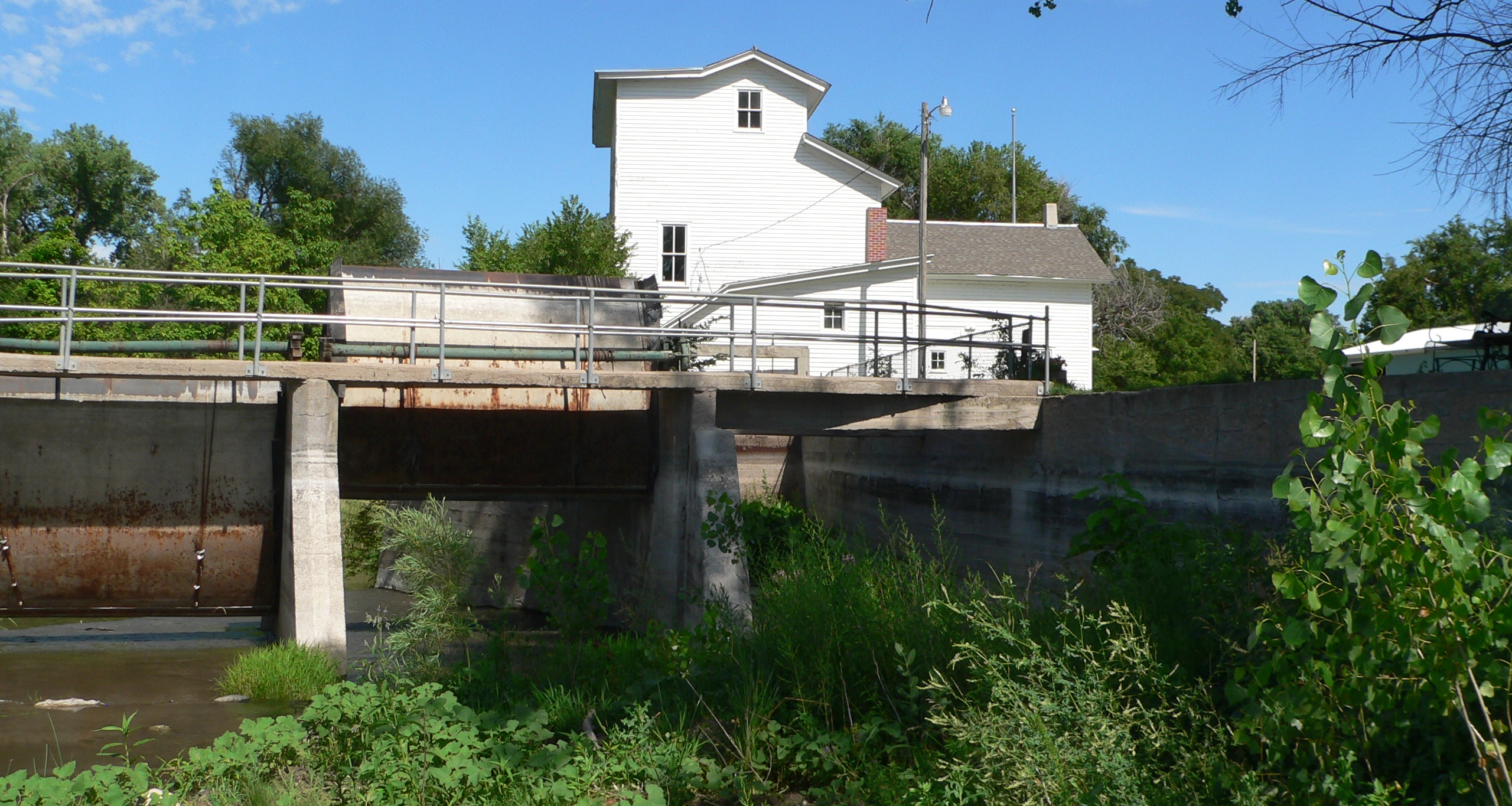 Champion Mill and dam in Champion, Nebraska; seen from the west (upstream). The mill was built in 1892, and is listed in the National Register of Historic Places. It is presently operated as a museum.